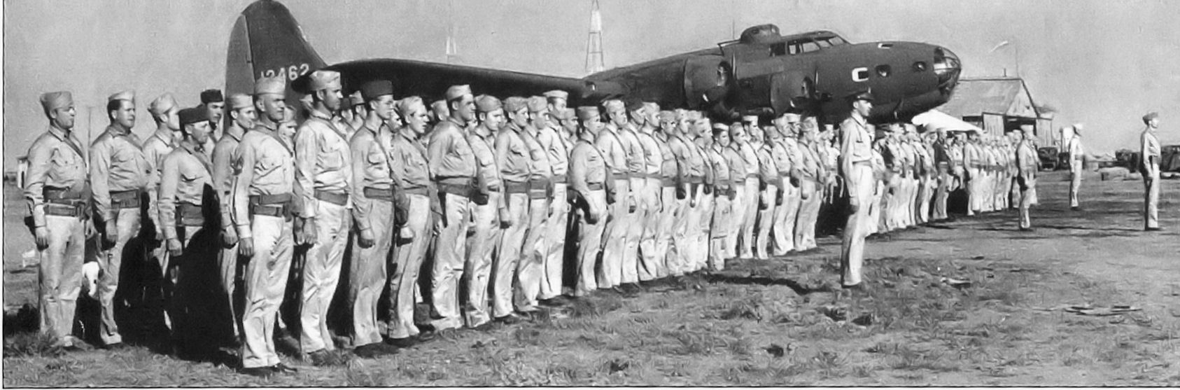 19th Bomb Group personnel on parade at Mareeba Airfield, Australia with B-17E 41-2462 (Tojo's Jinx) in late 1942, prior to the units departure back to the United States. This aircraft was scrapped on New Guinea in 1945.